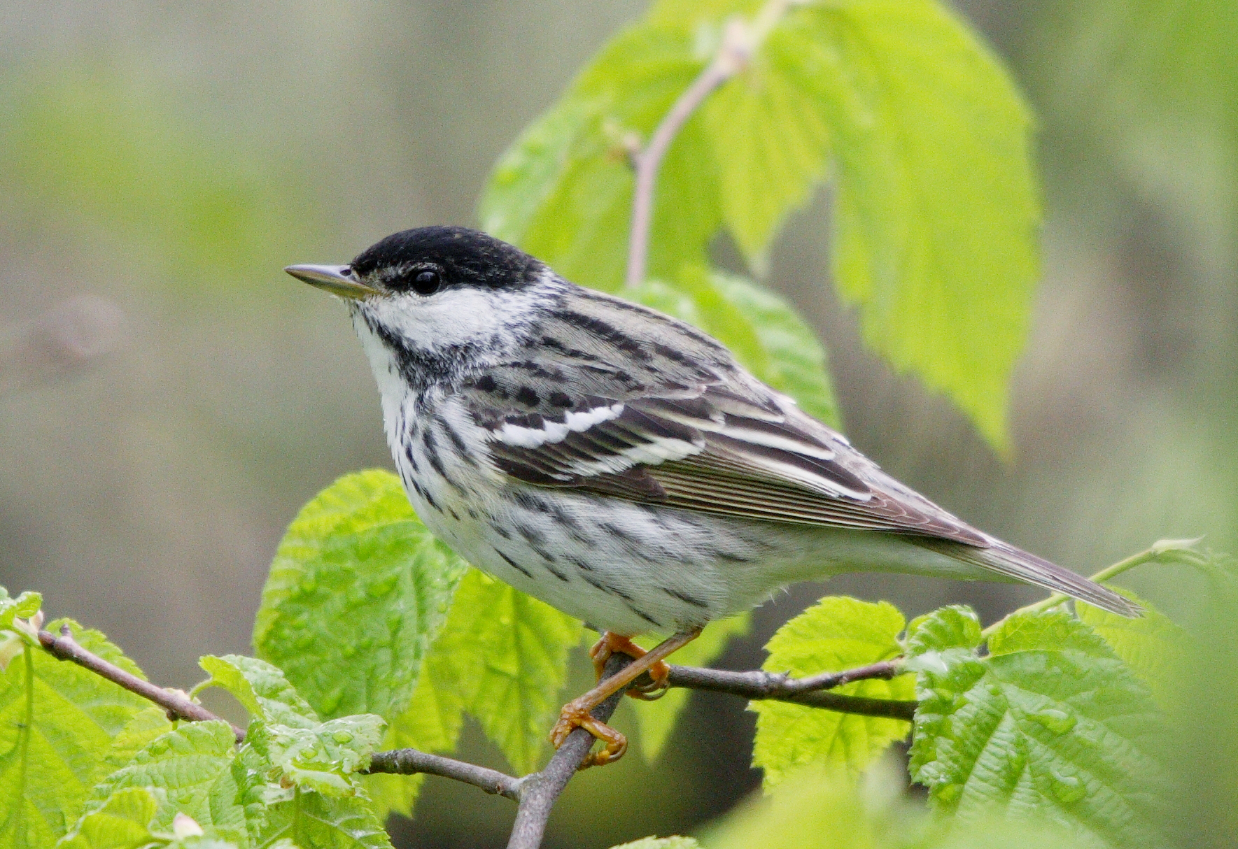 Blackpoll Warbler, Réserve naturelle des Marais-du-Nord, Quebec, Canada.